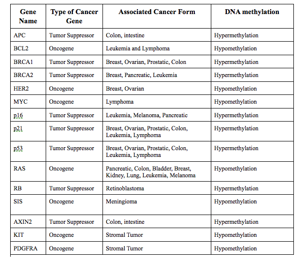 Genes listed have been linked to various forms of cancer in different studies across populations.